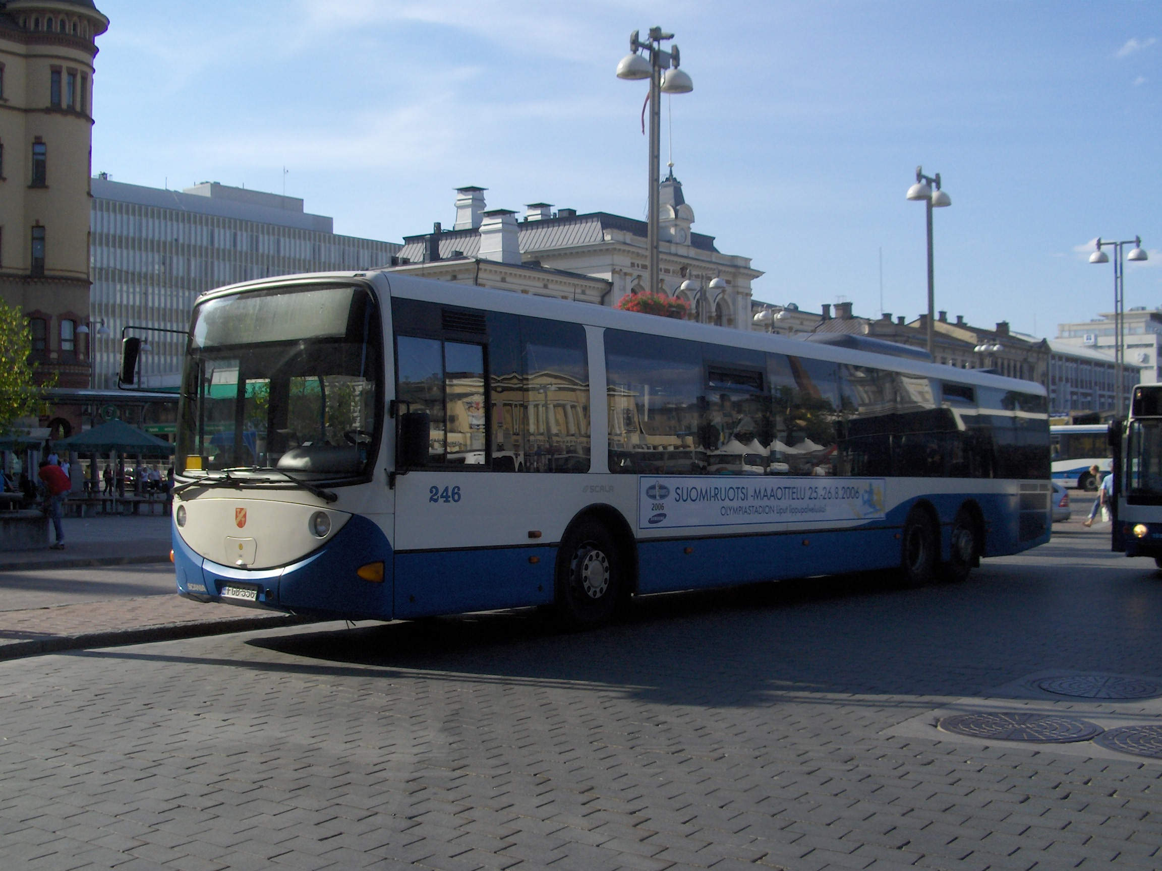 Lahti Scala with Scania L94UB chassis bus at Keskustori in Tampere. Year built 2002.